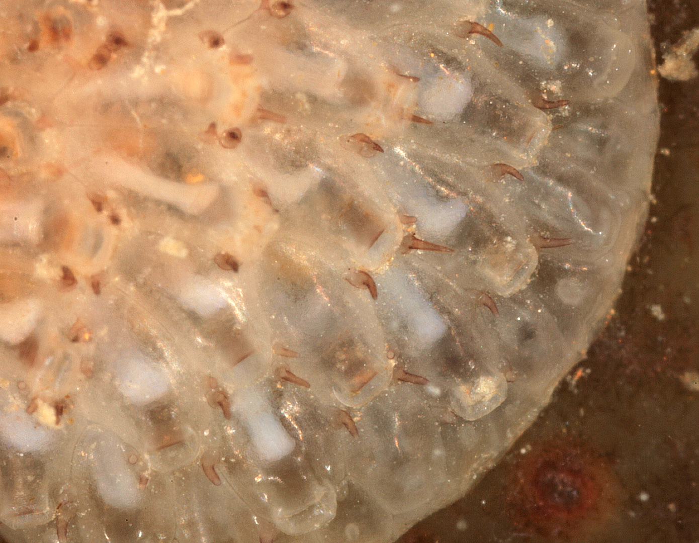 Live colony, found at Dorset, VC9, England on thallus of Fucus serratus